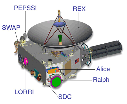 Outline diagram of locations of instruments aboard New Horizons